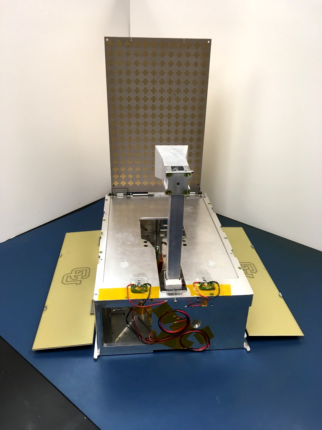 Satellite CUBECUBED prototype